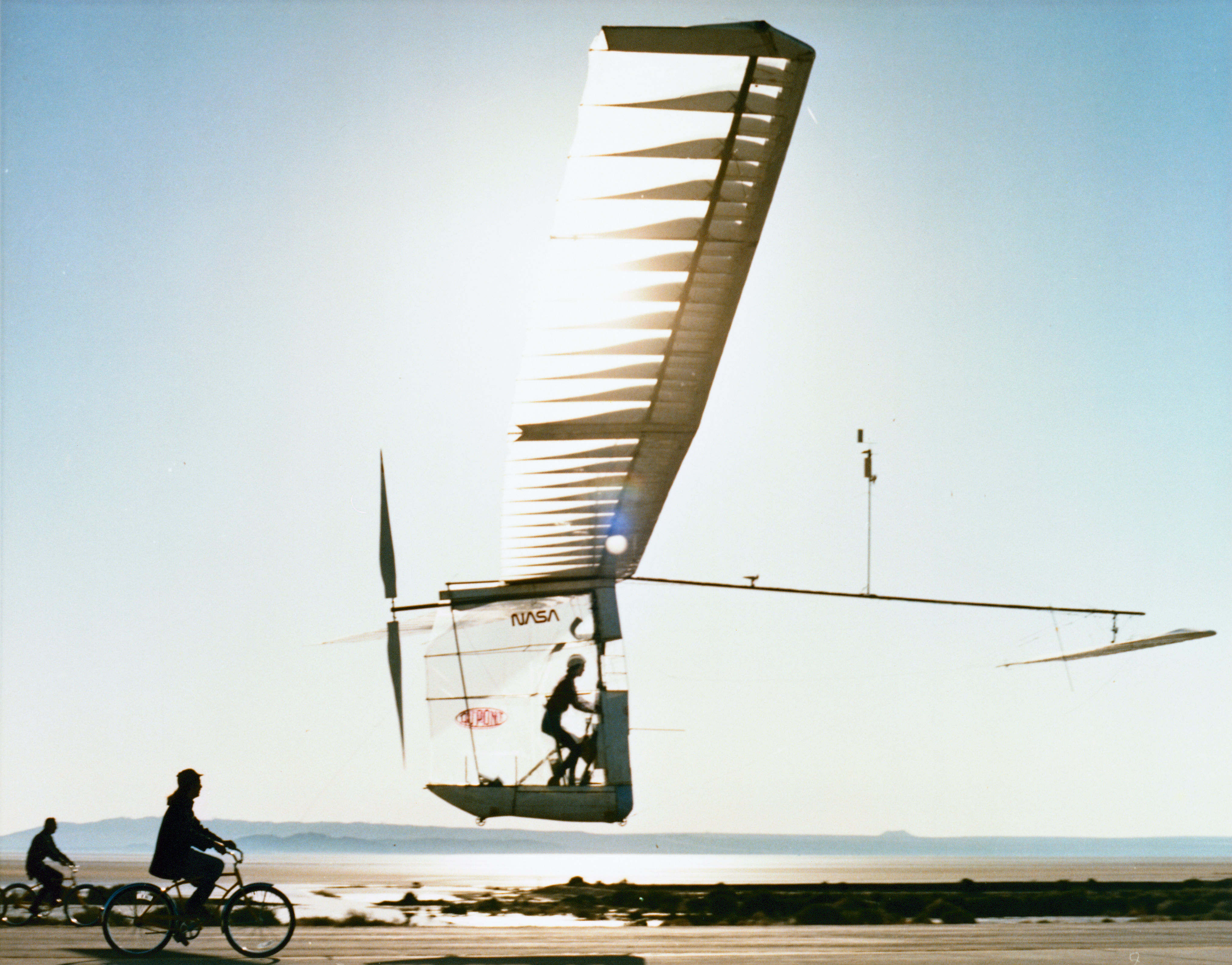 The Gossamer Condor photographed in flight Scope and content: The original finding aid described this as: "Keywords: c1980_02900s 1980_02977.jpg Larsen Scan Geographic Location: Cleveland, Ohio"